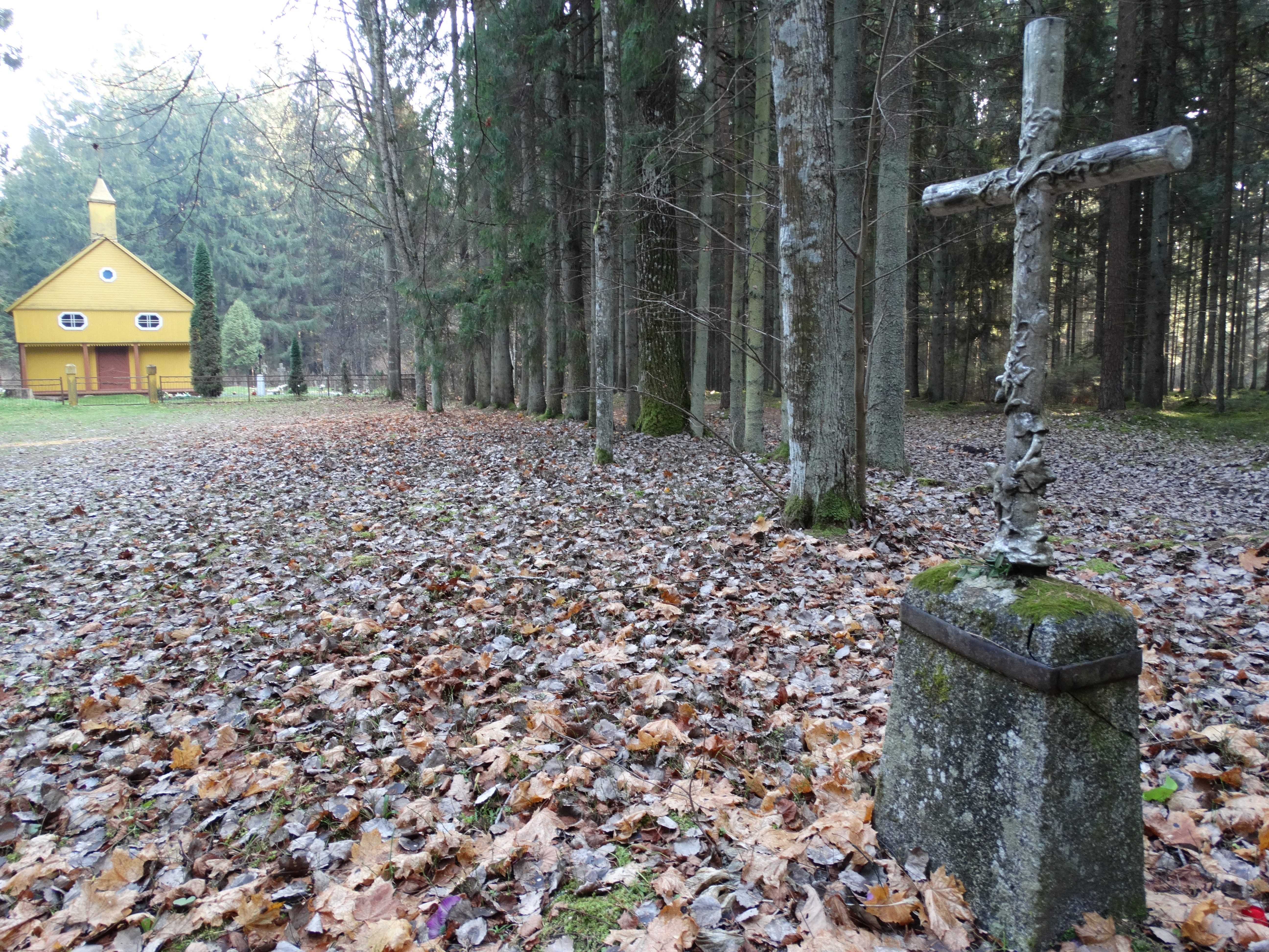 Chapel in Porijai, Pasvalys district, Lithuania